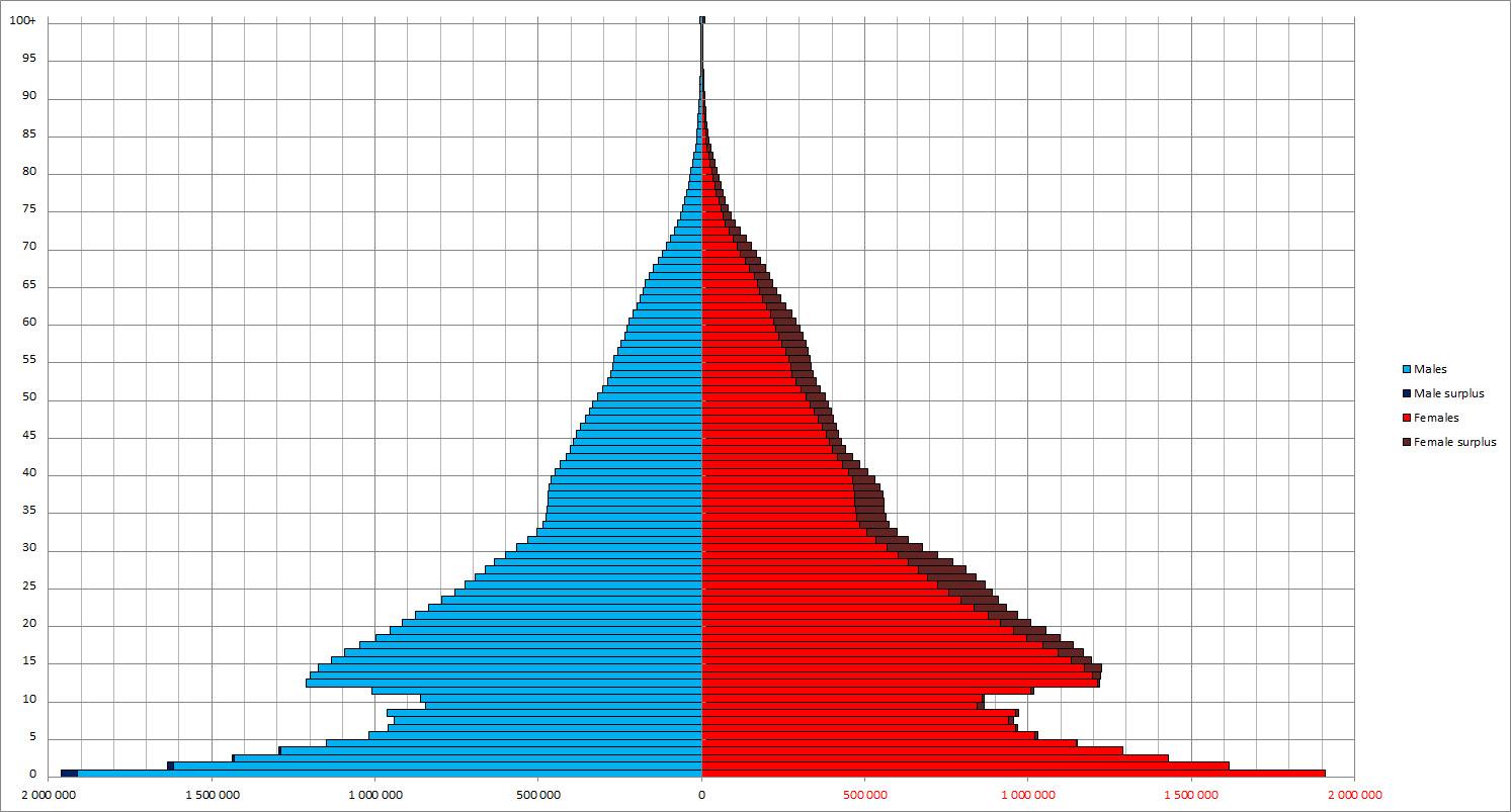 Russian population by age and sex (demographic pyramid) on 01 January, 1927